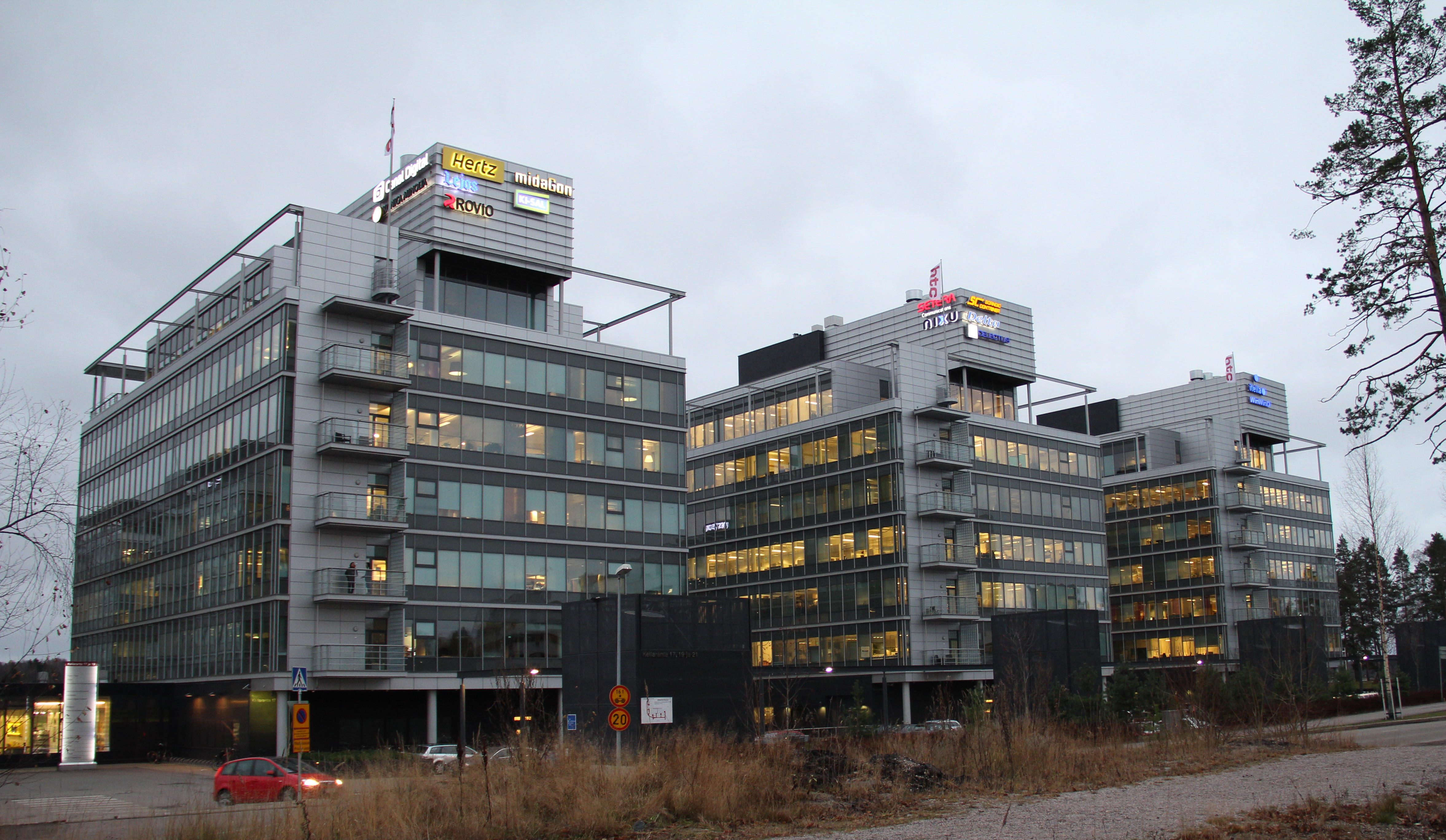 An office building complex High Tech Center Keilaniemi, in Keilaniemi, Espoo, Finland housing several companies. Design by Gullichsen Vormala Architects. Rovio Entertainment Headquarters somewhere in the building seen on left. The street's name is Keilaranta.